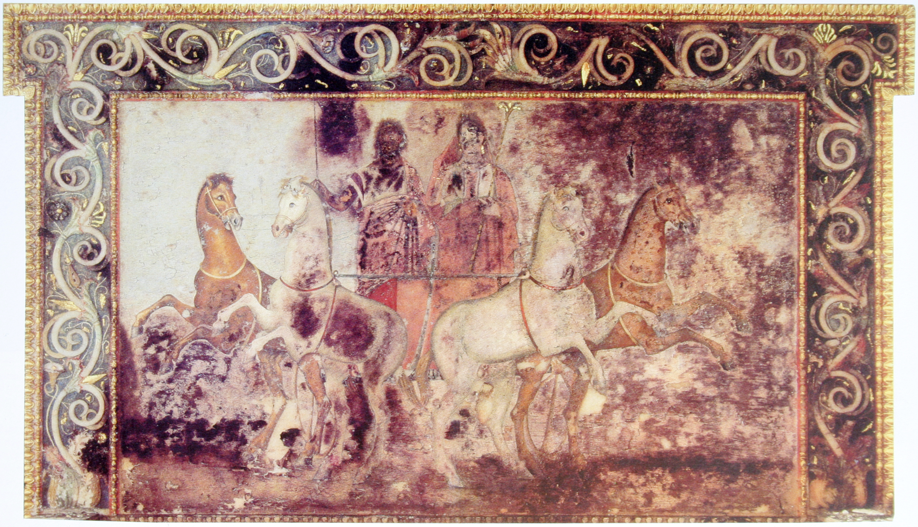 Hades and Persephone, fresco in the tomb called "Eurydice", Vergina, Greece. Colors on marble. 48 x 80 cm.